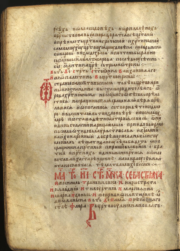 Second Lesnovian (Kovacevian) prolog from the time between years 1330 and 1340. 221 + 1 ff. parcement, Cyrillic semiuncial writing, with juses and without juses orthography, with Macedonian language characteristics